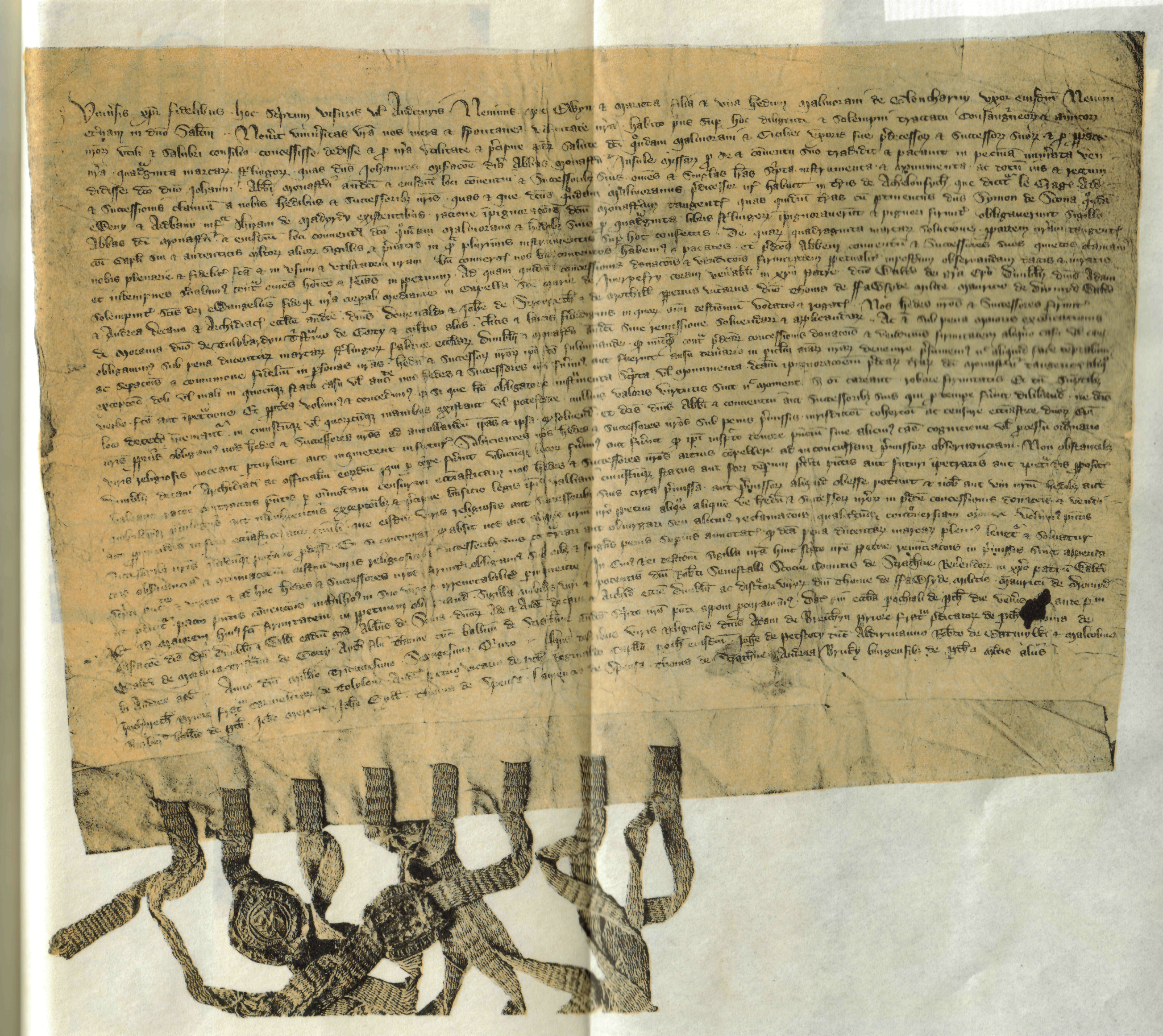 Charter (original) dated 1365